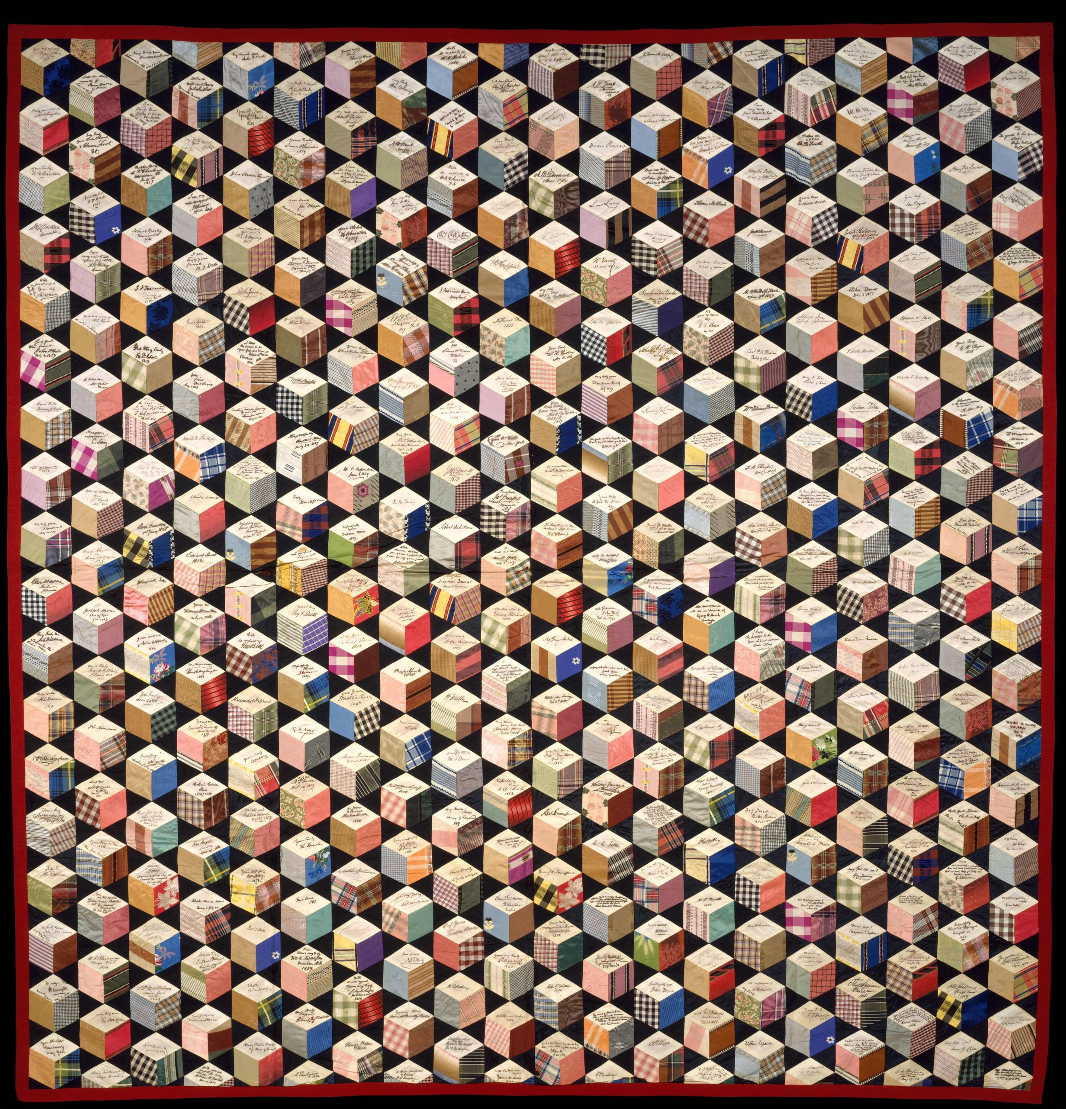 American; Quilt; Textiles